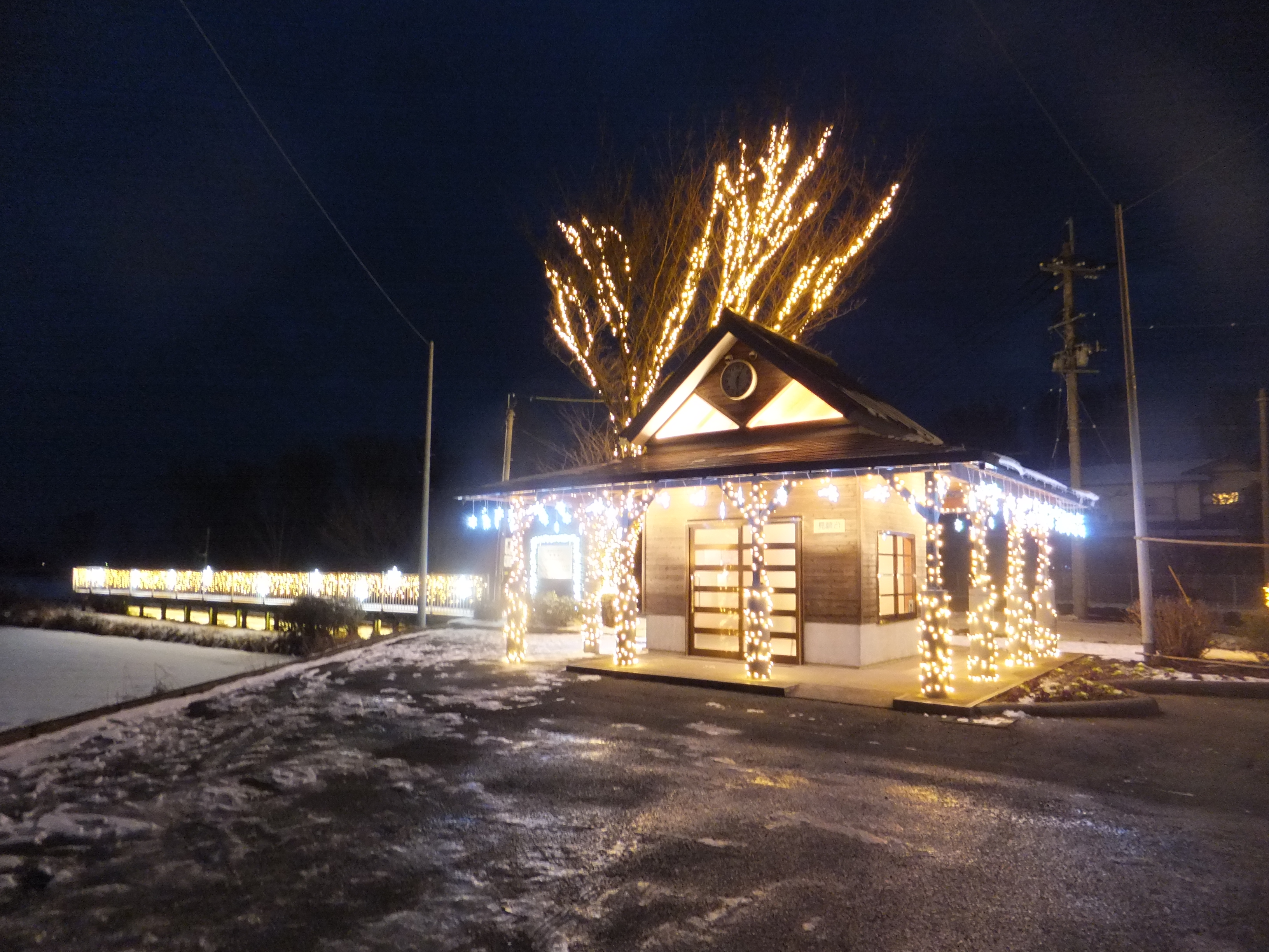 Minami Aso Railway Miharashidai Station Fujifilm FinePix F600EXR